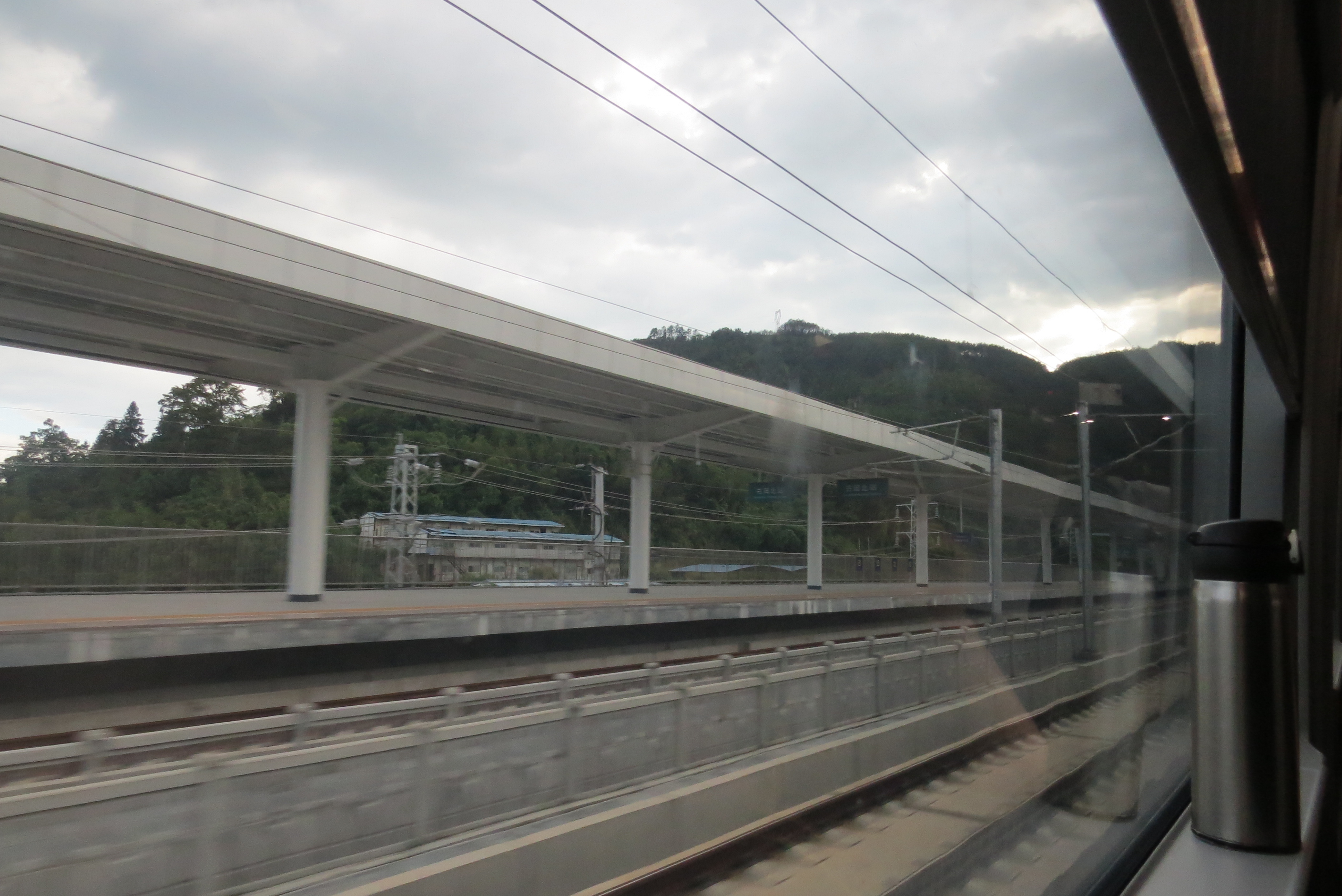 Not to be confused with that Gutian where Gutian Congress was held. This Gutian (interpreted from "坵塍", Kŭ-chèng) is in Ningde, while that Gutian is in Shanghang County, Longyan.